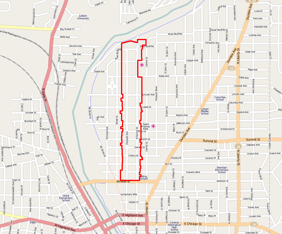 Spring-Douglas Historic District location in the upper Fox River Valley] This map of Cambridge was created from OpenStreetMap project data, collected by the community. This map may be incomplete, and may contain errors. Don't rely solely on it for navigation.